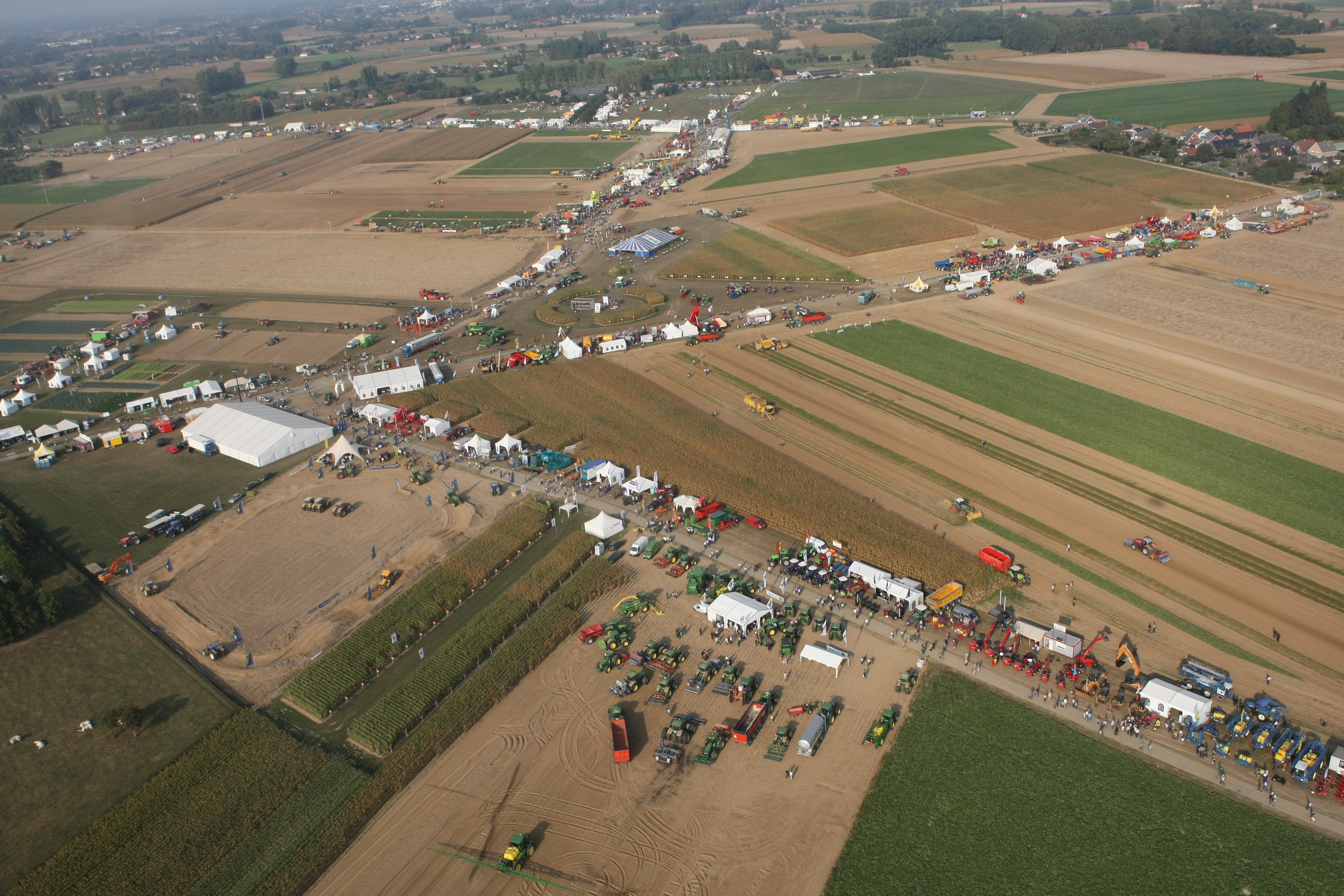 Werktuigendagen 2009